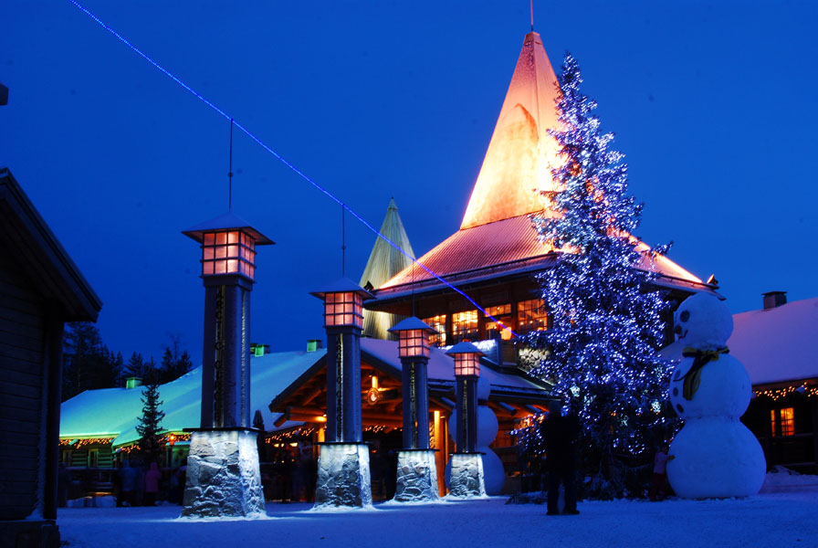 Depicted place: Santa Claus Village